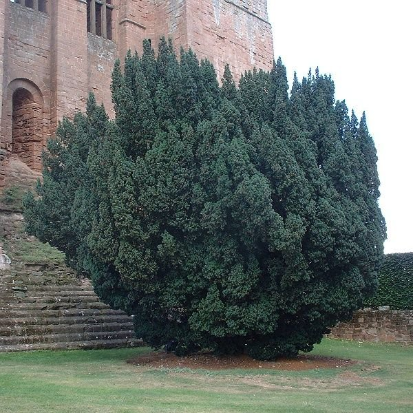 Irish yew